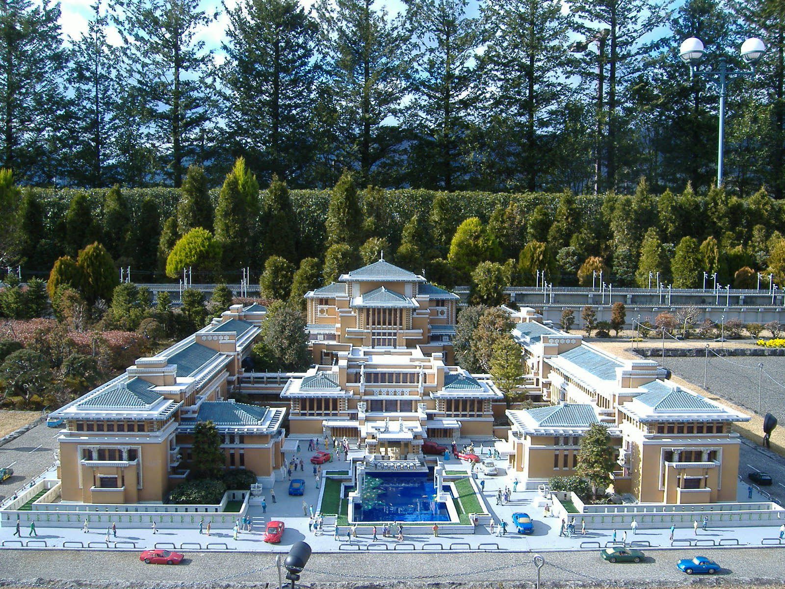 Former building of Imperial Hotel (Tokyo, Japan) by Frank Lloyd Wright; a 1/25 scale model in Tobu World Square (Tochigi pref., Japan)